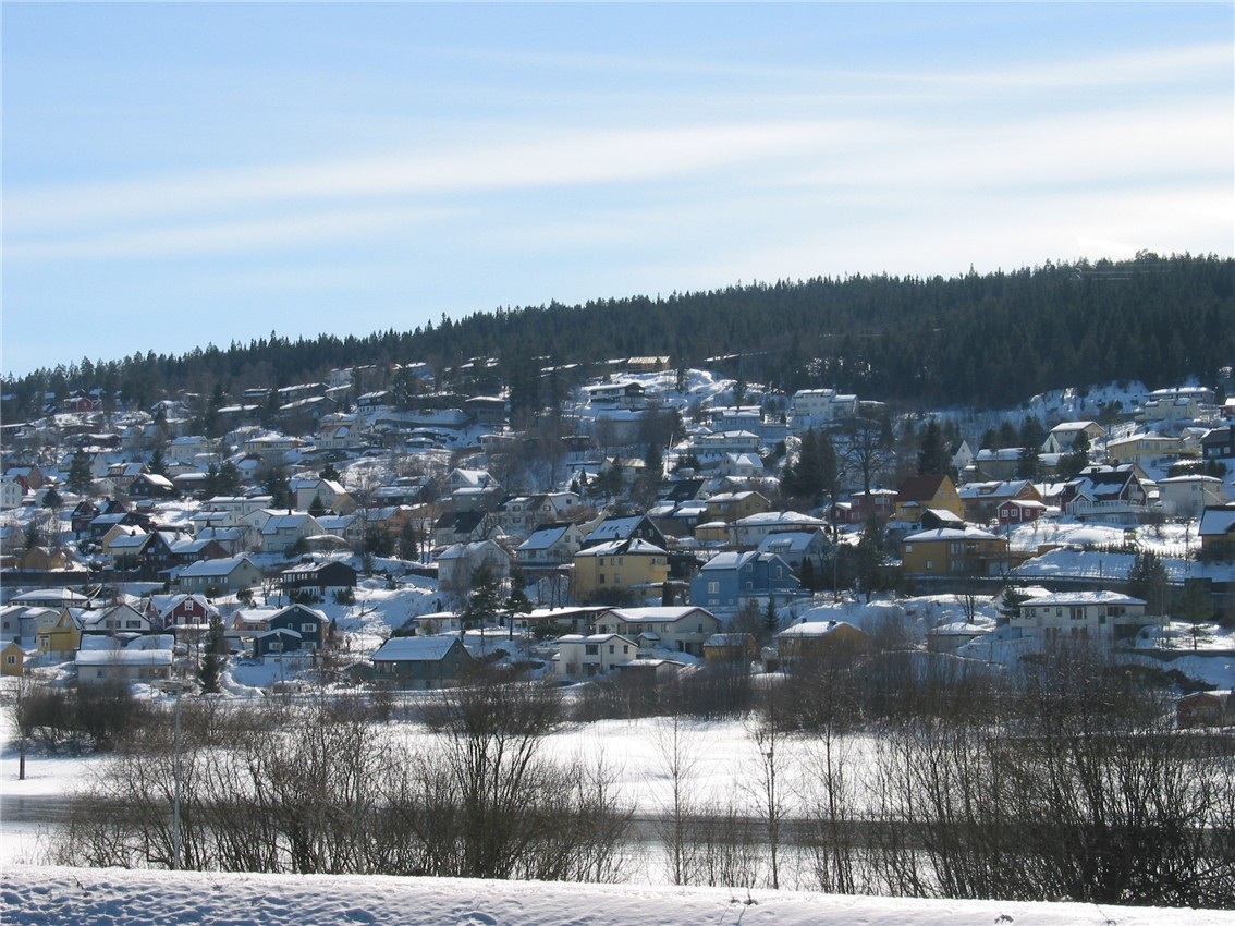 The suburban area Rælingen in Rælingen municipality, Norway. Taken by me on March 25, 2006.